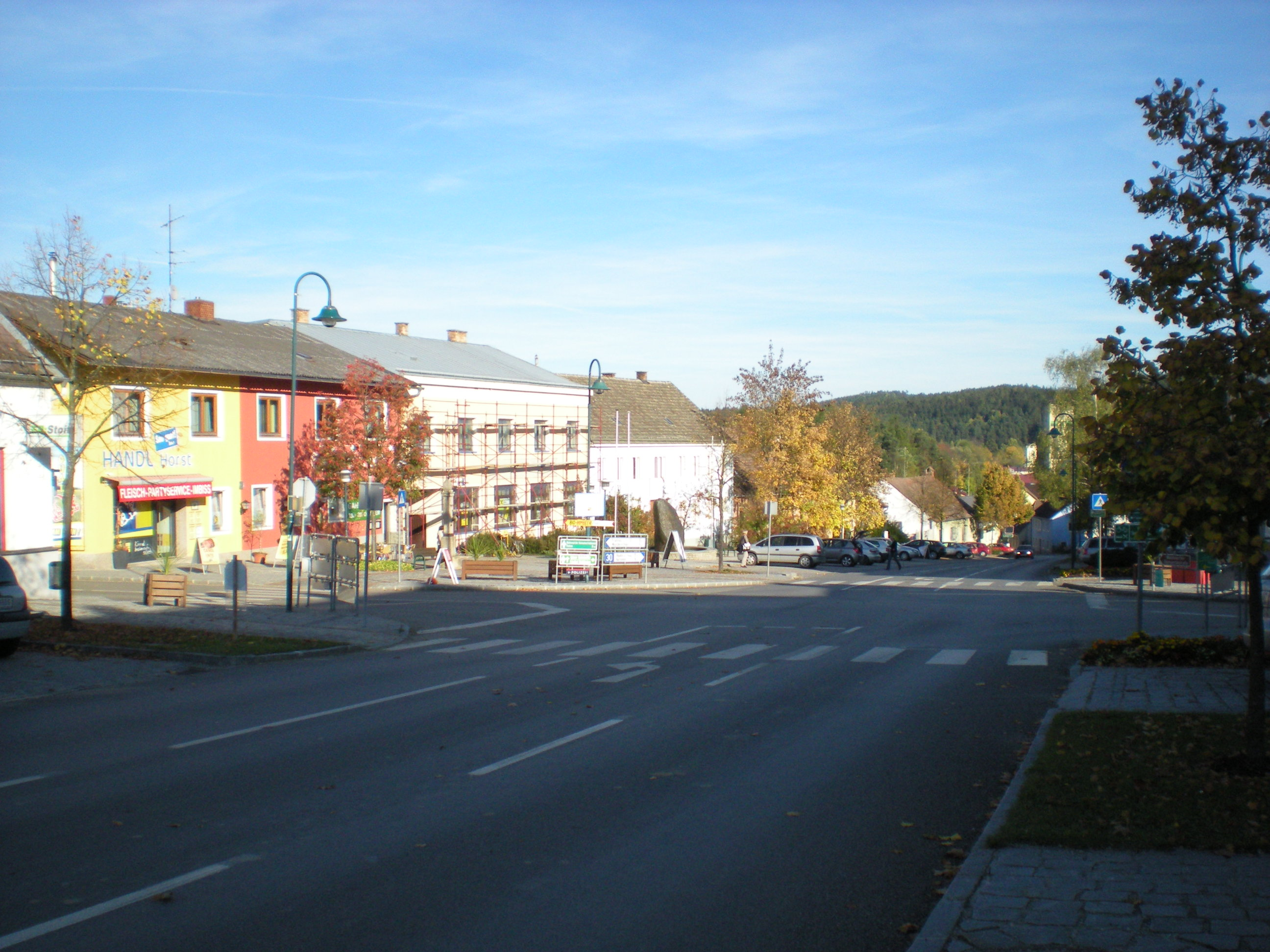 Dobersberg, Lower Austria - main square